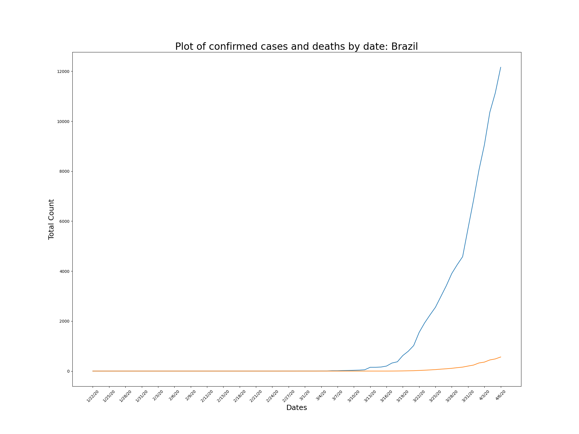 COVID 19 confirmed vs death Cases in Brazil